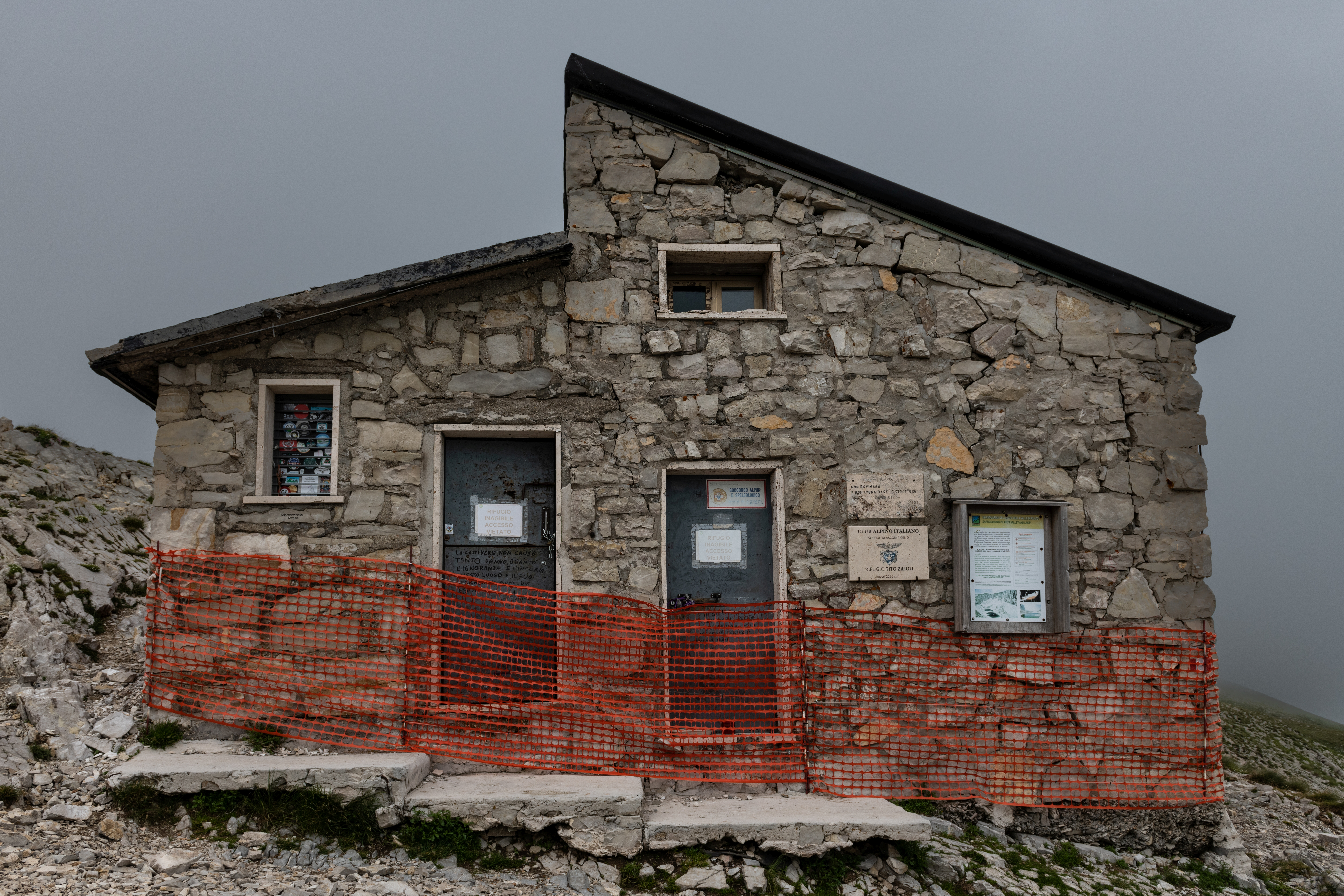 Il Rifugio Tito Zilioli alla Sella delle Ciaule (2.250 m slm) come si presenta il 29 giugno 2018 con le recinzioni per impedire l'accesso a causa dell'inagibilità dichiarata in conseguenza agli eventi sismici del 30 ottobre 2016.